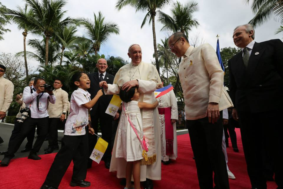 His Holiness Pope Francis, accompanied by President Benigno S. Aquino III, hugs children at the garden area of the Malacañan Palace during the welcome ceremony for the State Visit and Apostolic Journey to the Republic of the Philippines on Friday (January 16, 2015)